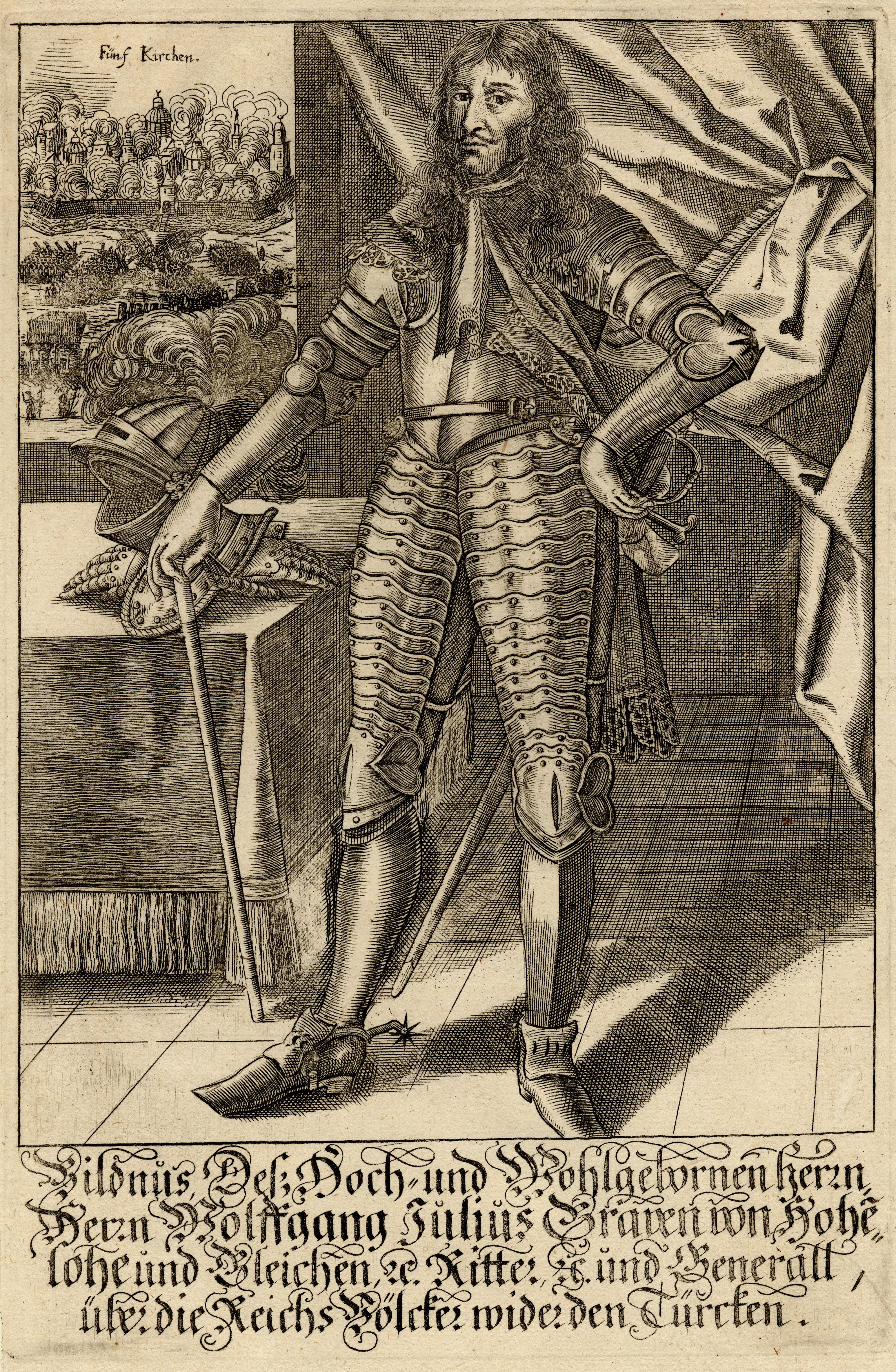 Wolfgang Julius, Count of Hohenlohe-Neuenstein (1622–1698) Bildnus, Deß Hoch- und Wohlgebornen Herrn, Herrn Wolffgang Julius Graven von Hohẽ- lohe un Gleichen, &c. Ritter, &c. und Generall, über die Reichs Völker wider den Türcken.